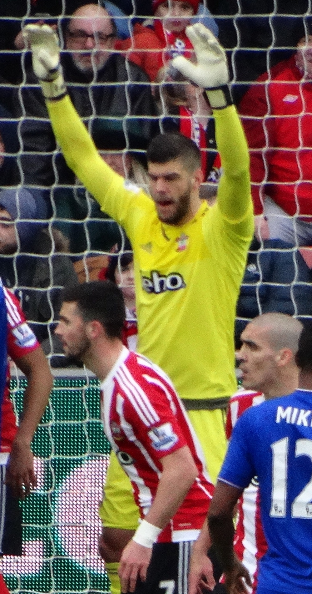 Fraser Forster playing for Southampton against Chelsea at St Mary's Stadium, Southampton on 27 February 2016